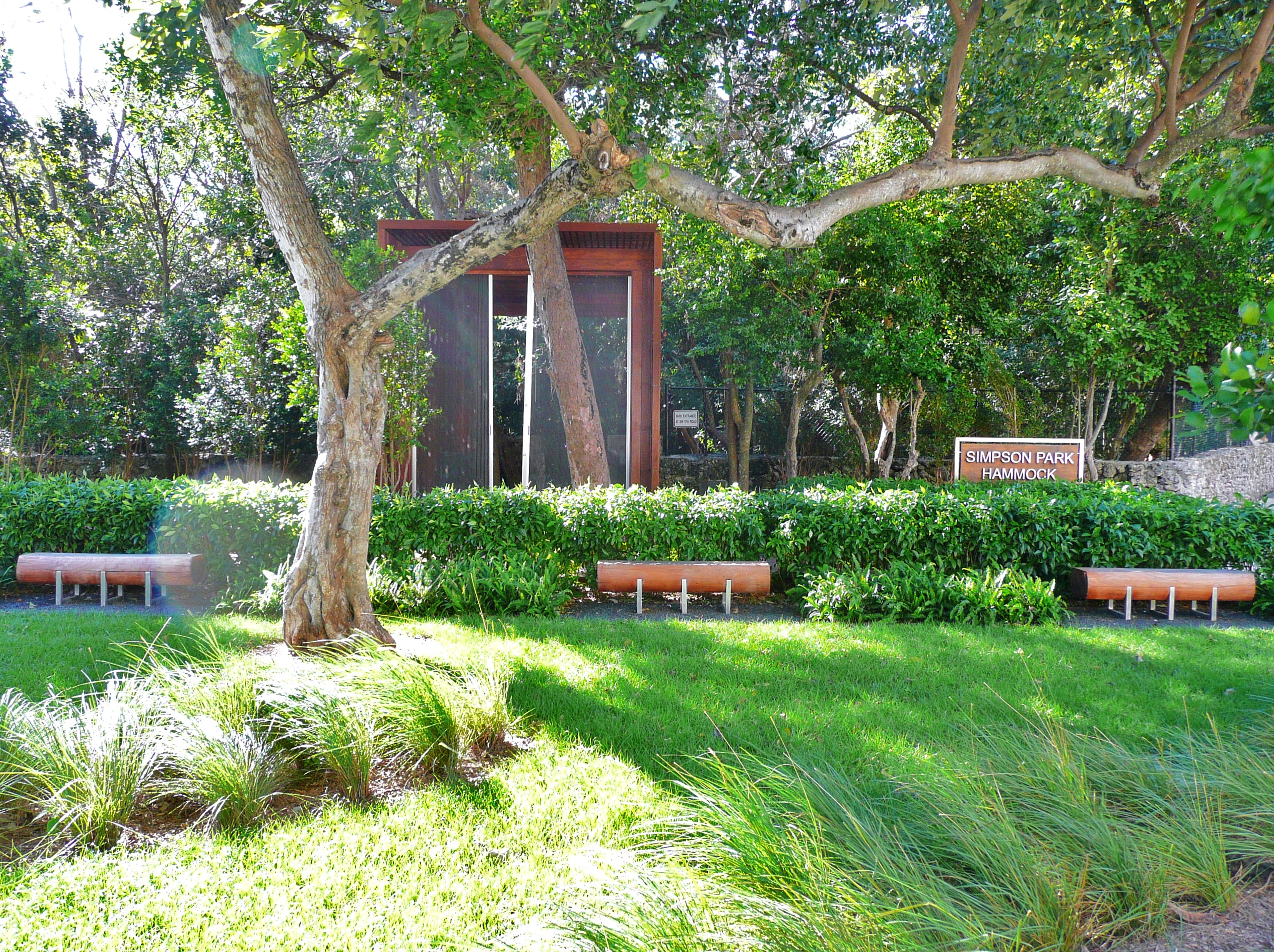 Digital photo taken by Marc Averette. Simpson Park Hammock northeast entrance in Downtown Miami, Florida, United States.